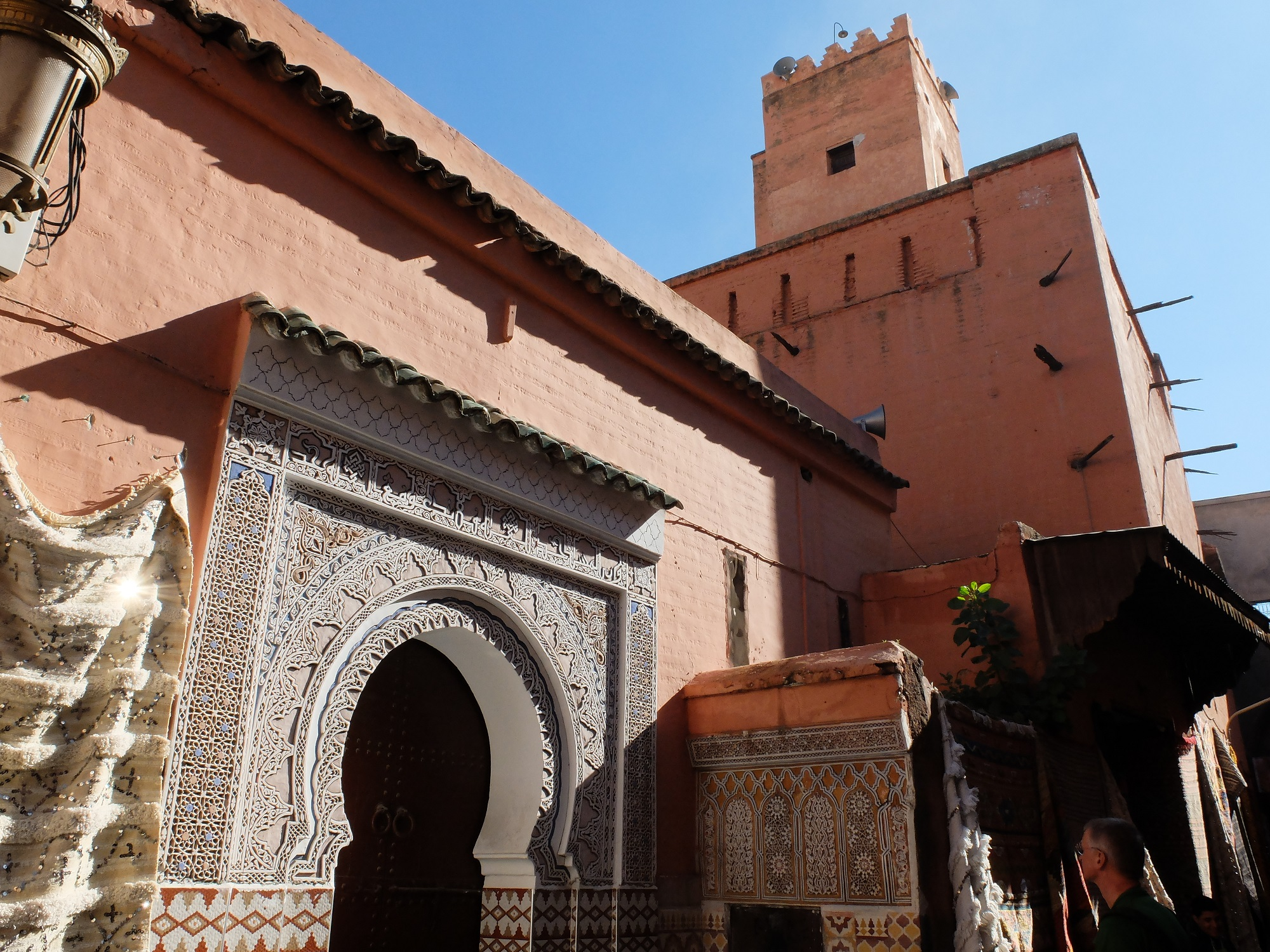 Mouassine Mosque, Marrakech. Western side with short square minaret visible.